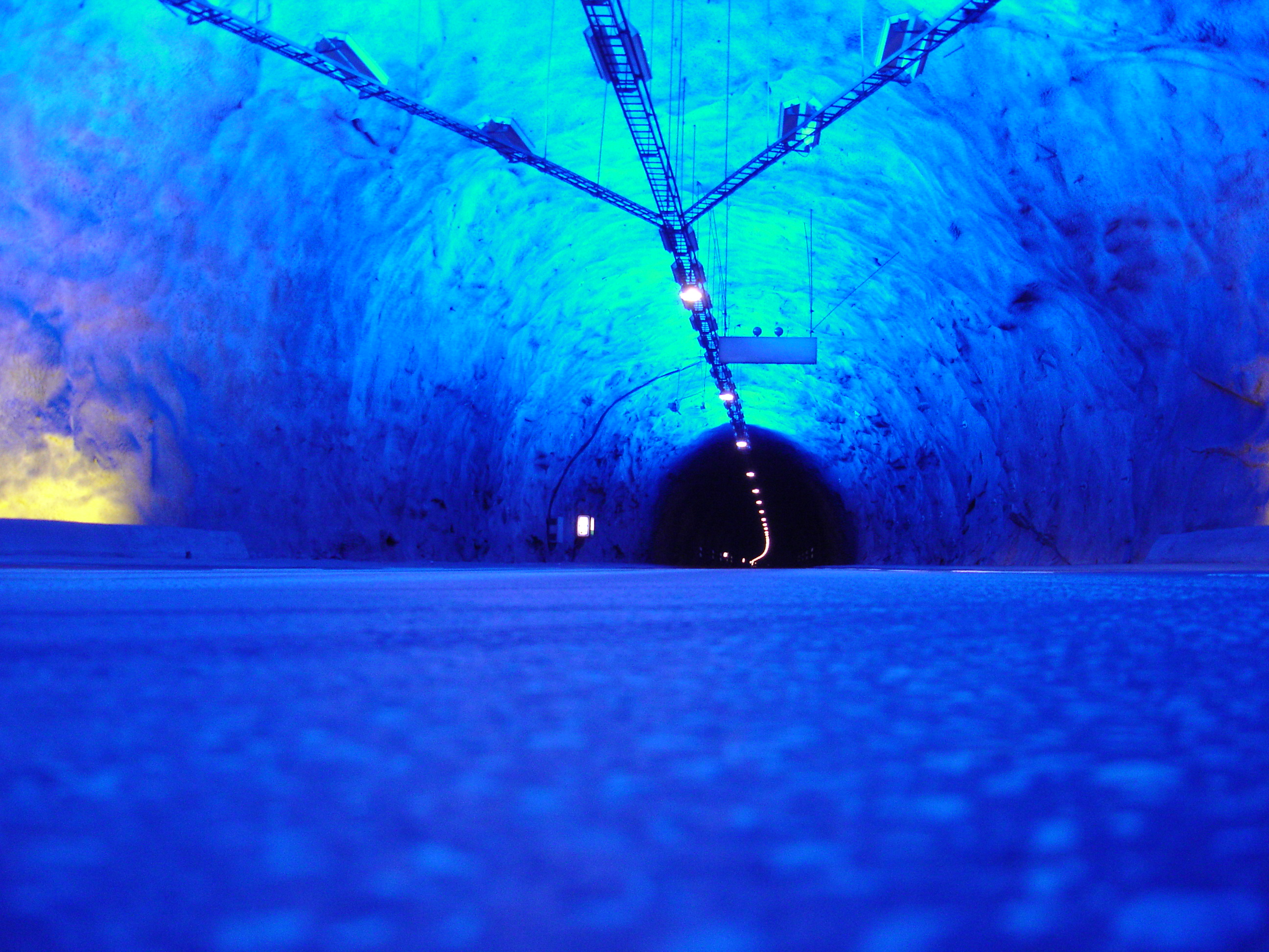 Rest place in Laerdal Tunnel